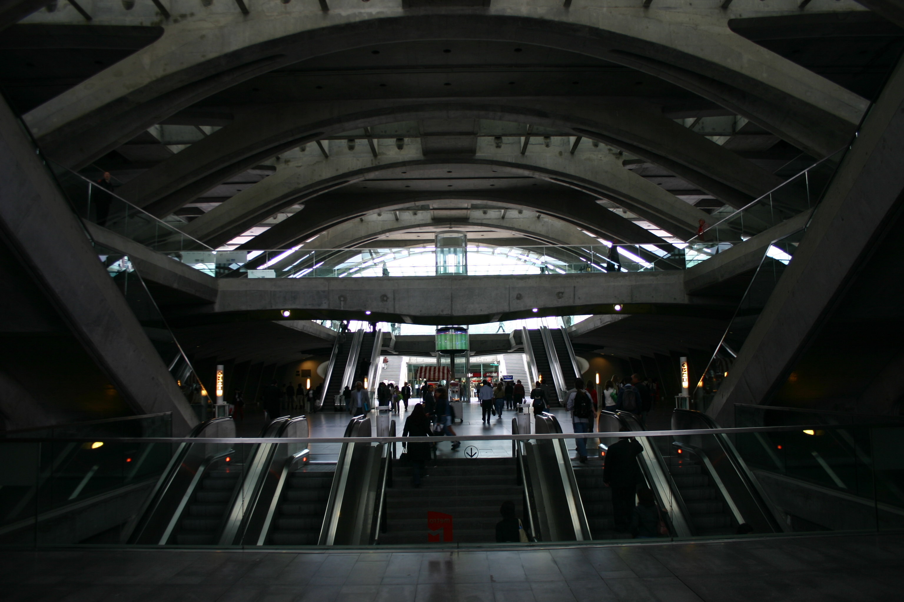 Gare do Oriente train station, Lisbon, Portugal